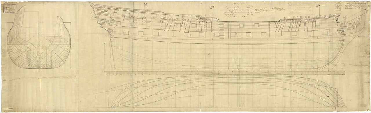 The body plan, sheer lines, and longitudinal half-breadth for Albion (1763) a 74-gun Third Rate, two-decker. The plan was later used for building Grafton (1771), Alcide (1779), Fortitude (1780), and Irresistable (1782).